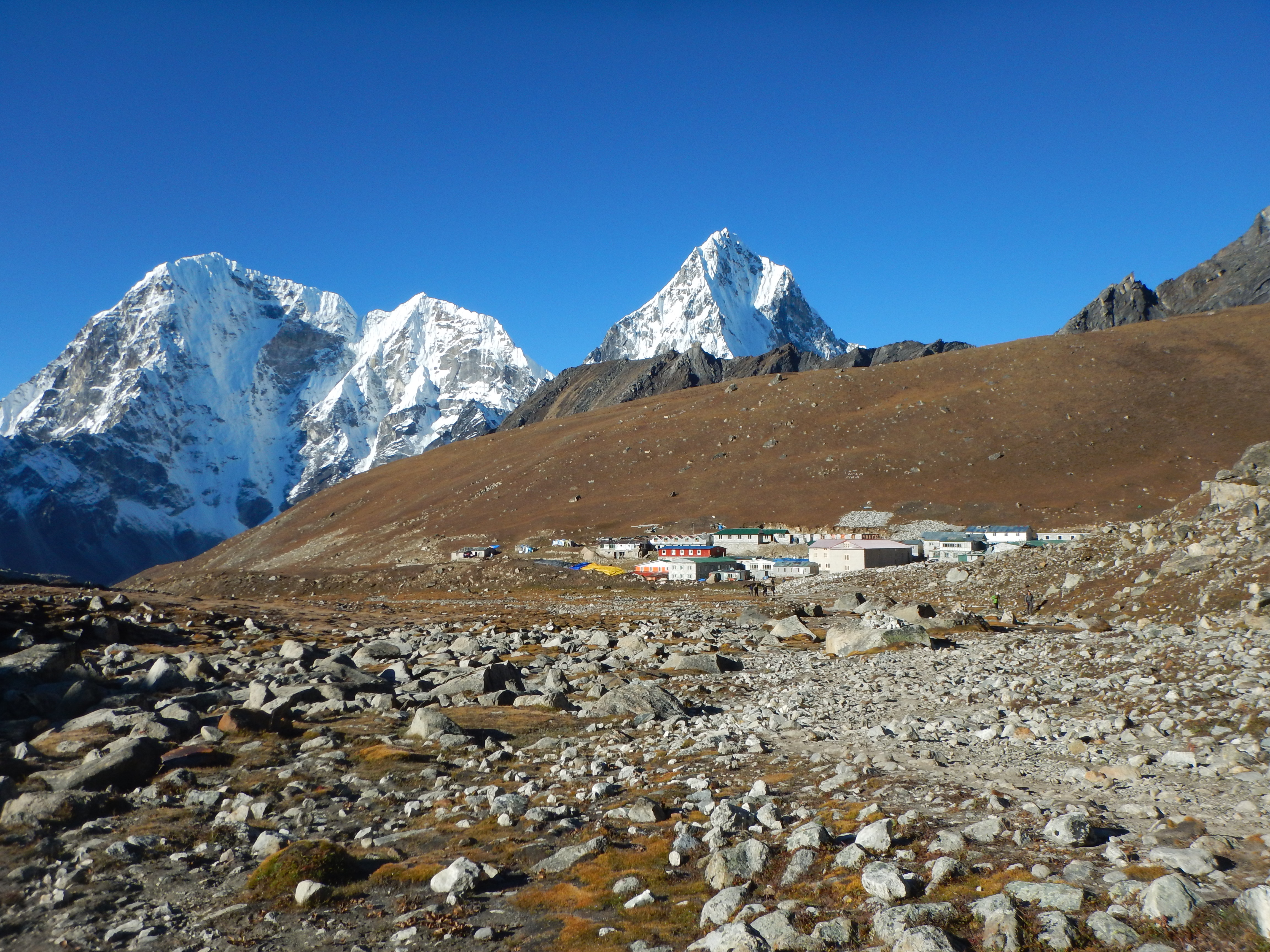 Partial view of Lobuche (Nepal) from the trail to Gorak Shep (Gorakshep)